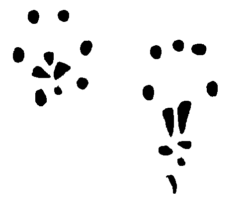 Bush rat (Buschratte; Rattus fuscipes); drawing of footprints (left:forefoot/Vorderpfote, right:hintfoot/Hinterpfote)